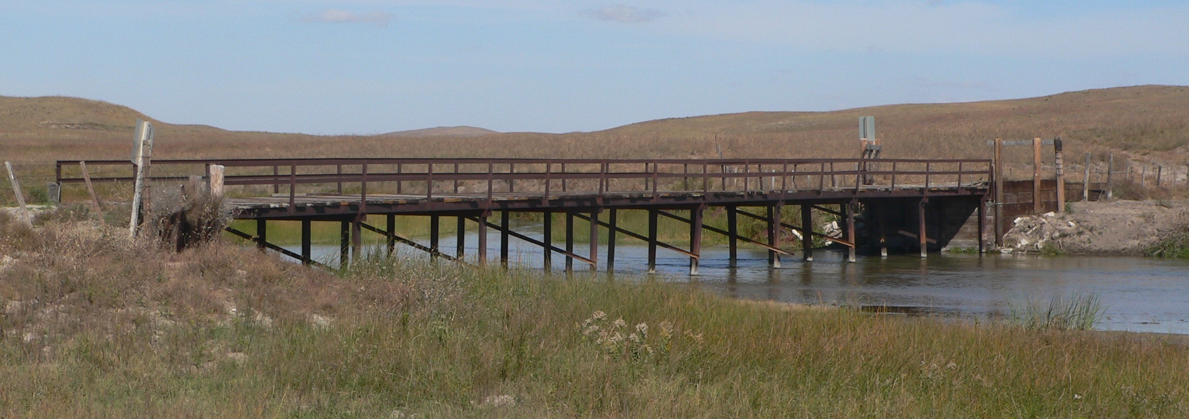 Twin Bridge, carrying a minimm-maintenance county road across the North Loup River northwest (upstream) of Brownlee, Nebraska; seen from the south bank. Downstream is right.